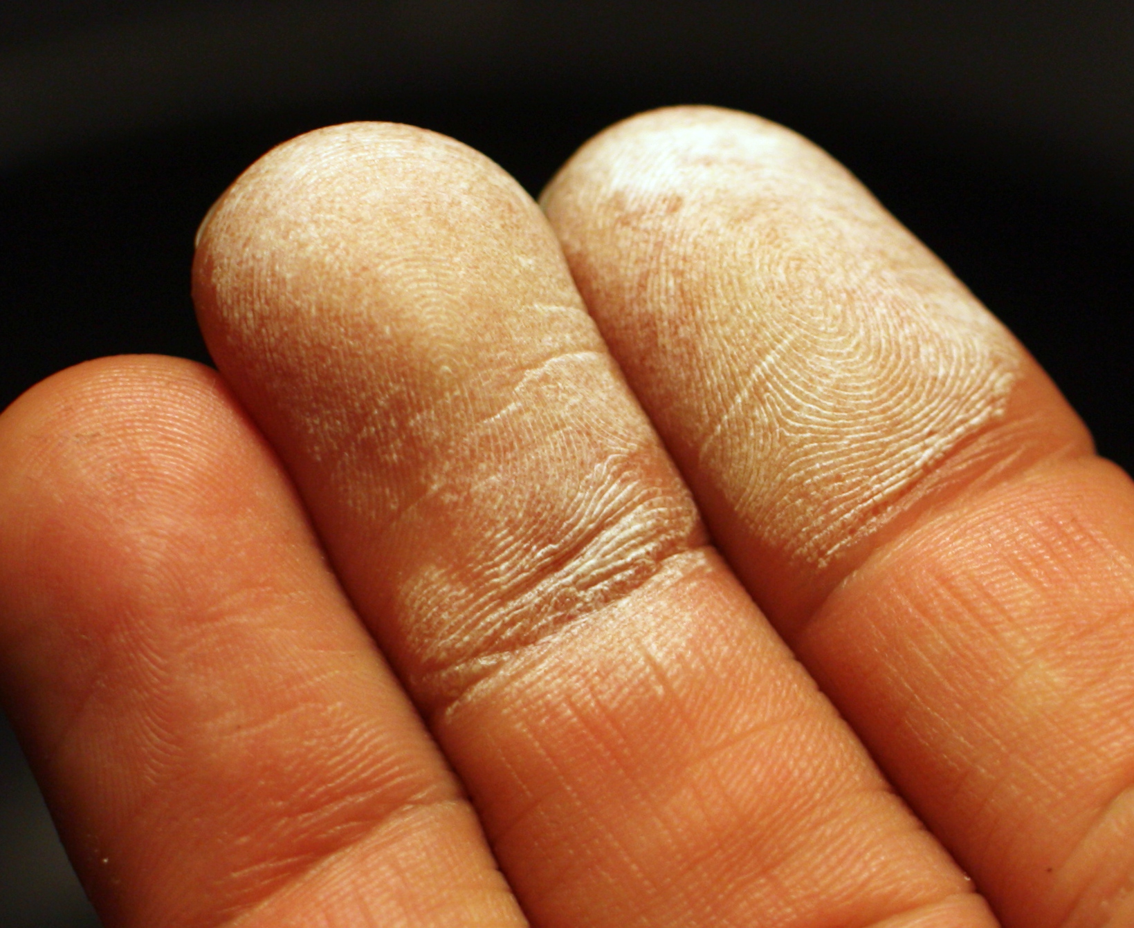 Fingertips shortly after a brief exposure to 35 % hydrogen peroxide